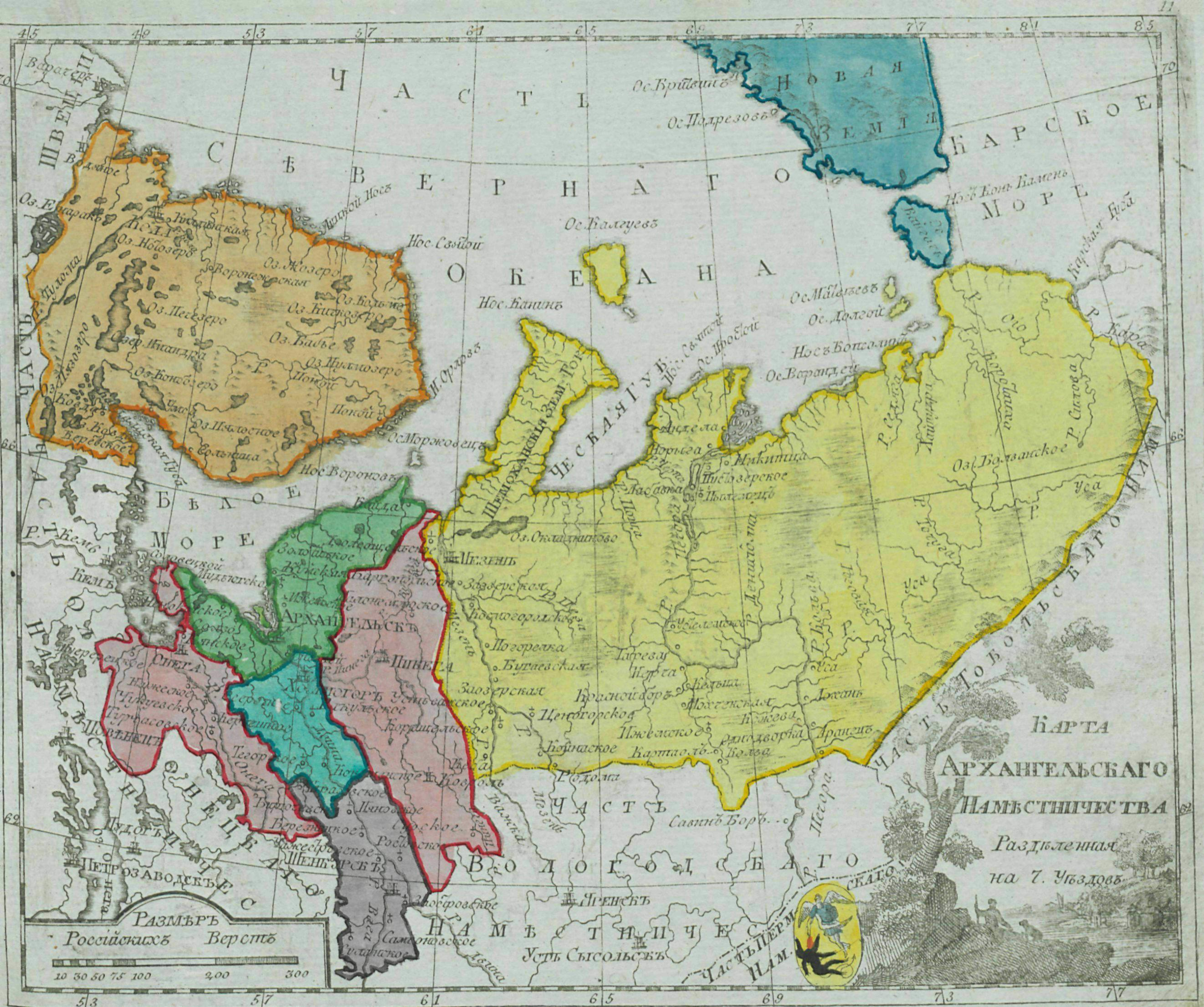 Small atlas of the Russian Empire (1792). Map of Arkhangelsk Namestnichestvo (map 10).